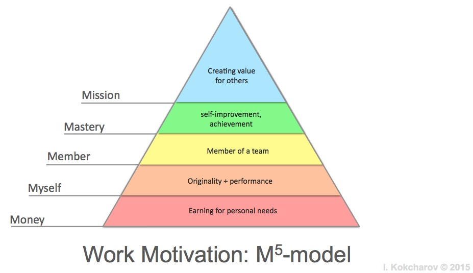 The Kokcharov's Work Motivation M5 Model includes 5 elements: money, myself, membership of a team, mastery, and mission.